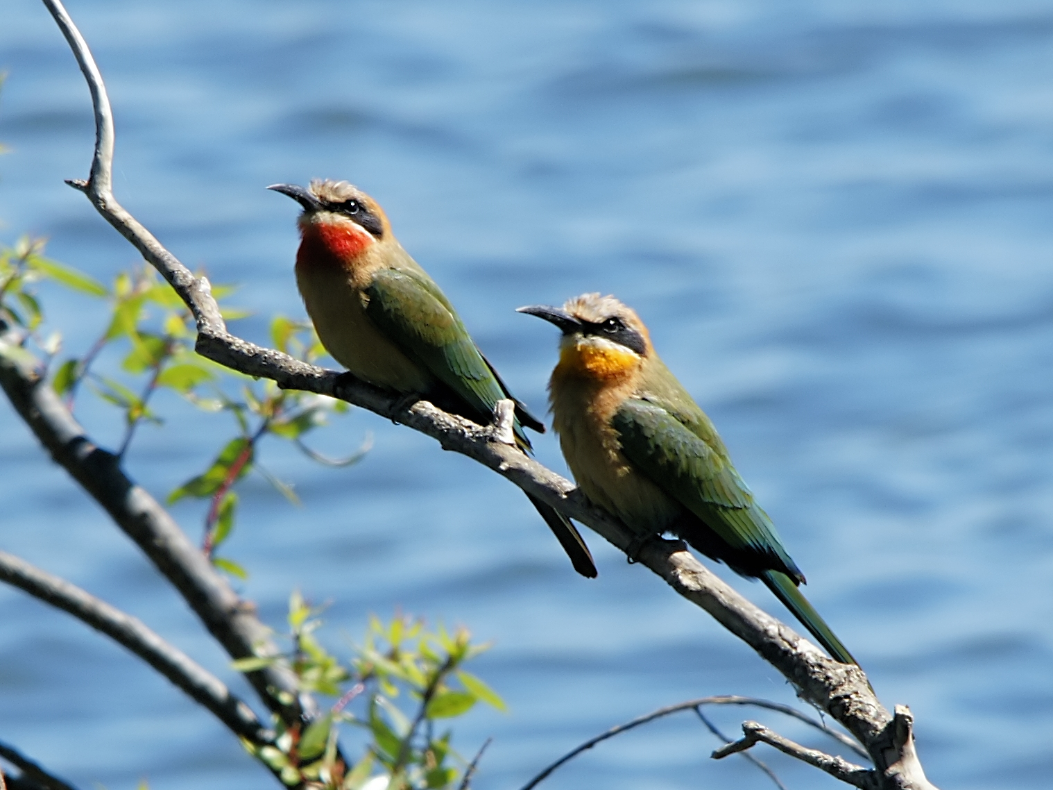 Adult (left) and immature (right) White-fronted Bee-eaters at the Zambezi near Livingstone, Zambia